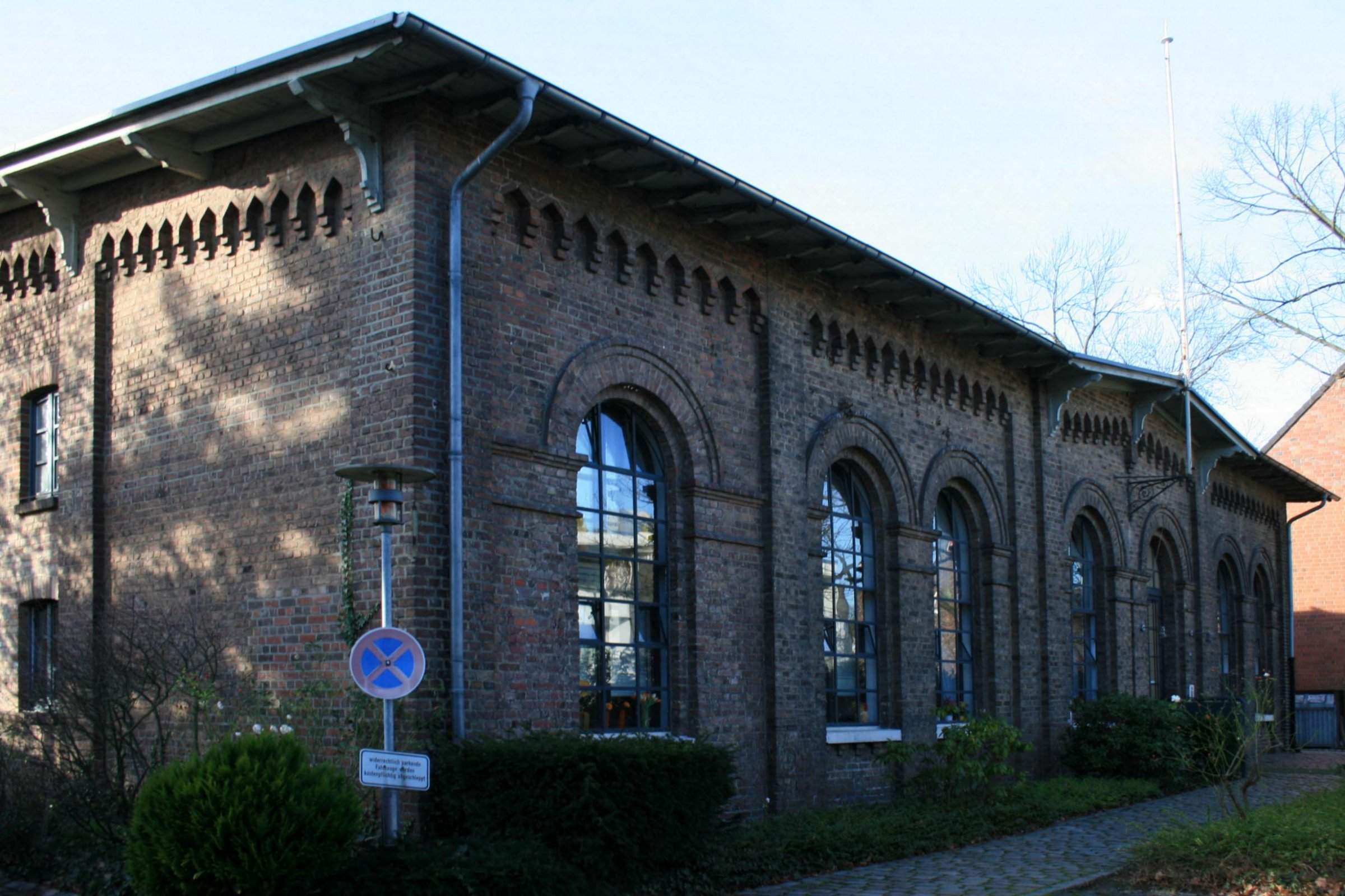 This is a photograph of an architectural monument. (1)